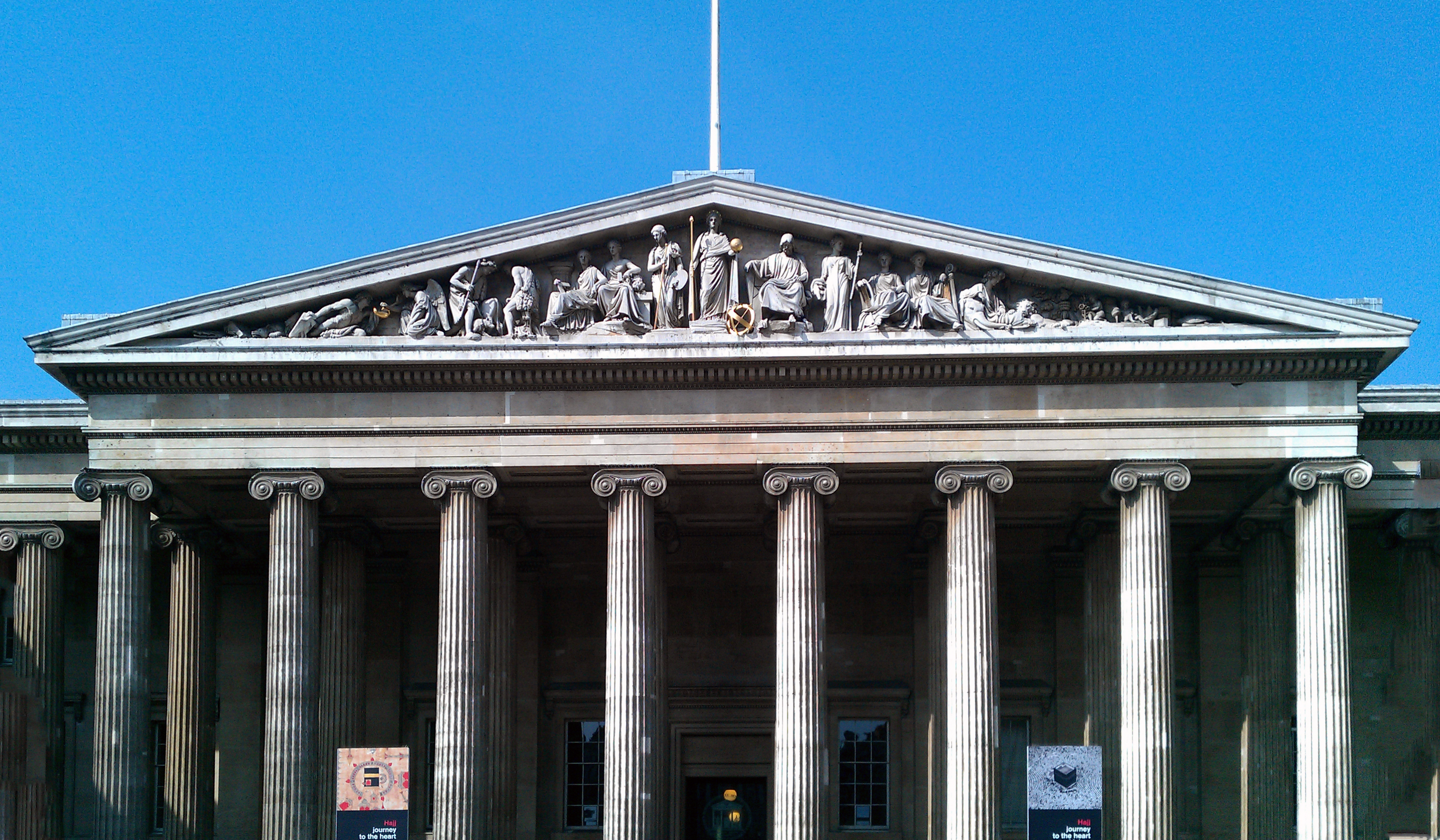 British Museum Entrance - British Museum